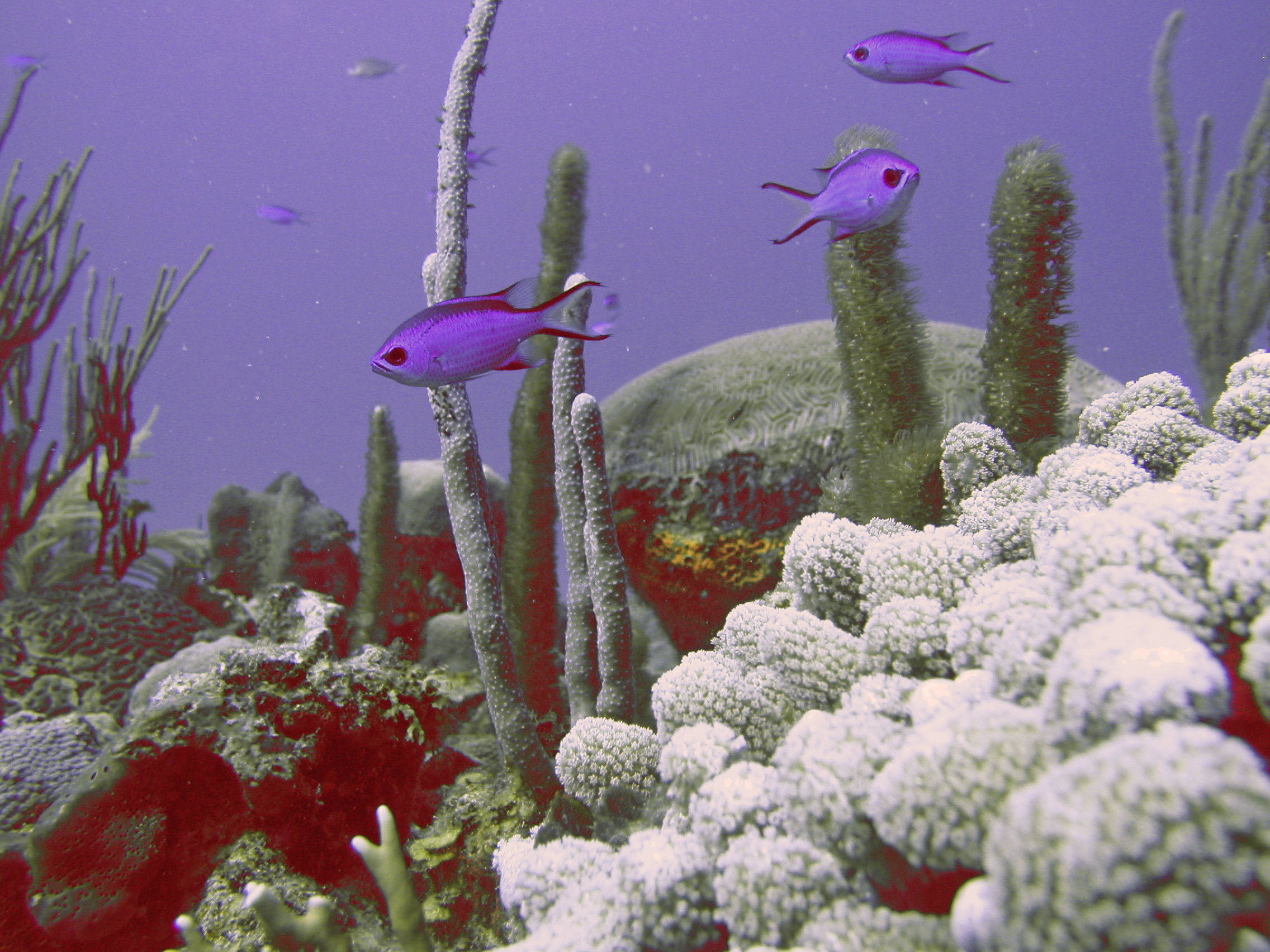 Shade-grown coffee helps protect water quality and coral reefs like this one in Puerto Rico. NOAA photo.